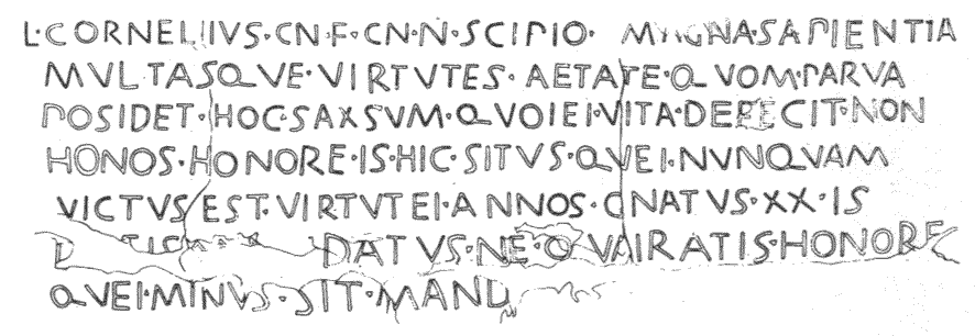 inscription from Scipio's grave, rome (check the letters on this map)